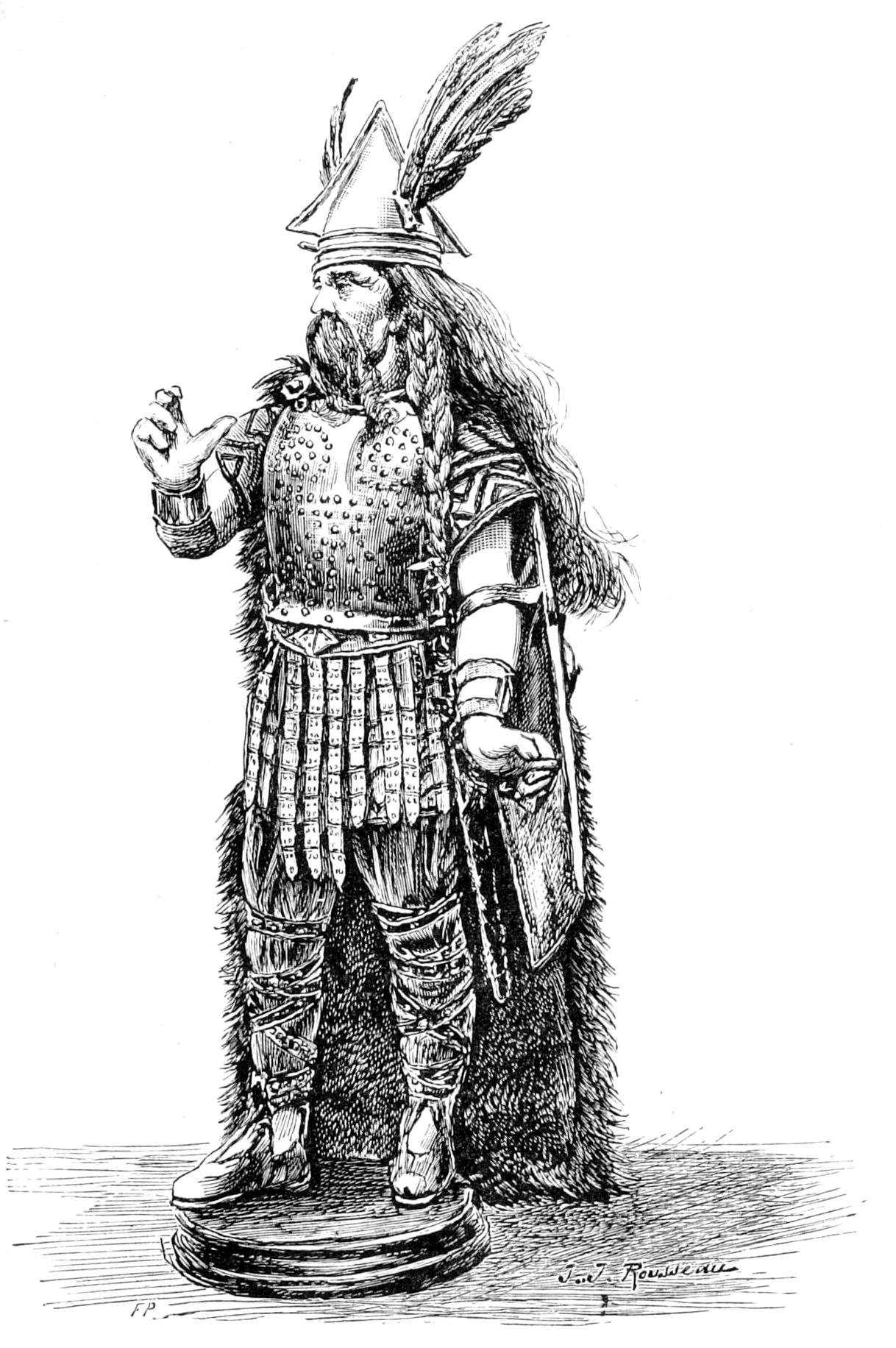 Ernest Reyer - Sigurd - Paris, Opéra, 12-06-1885 - 8 Hagen